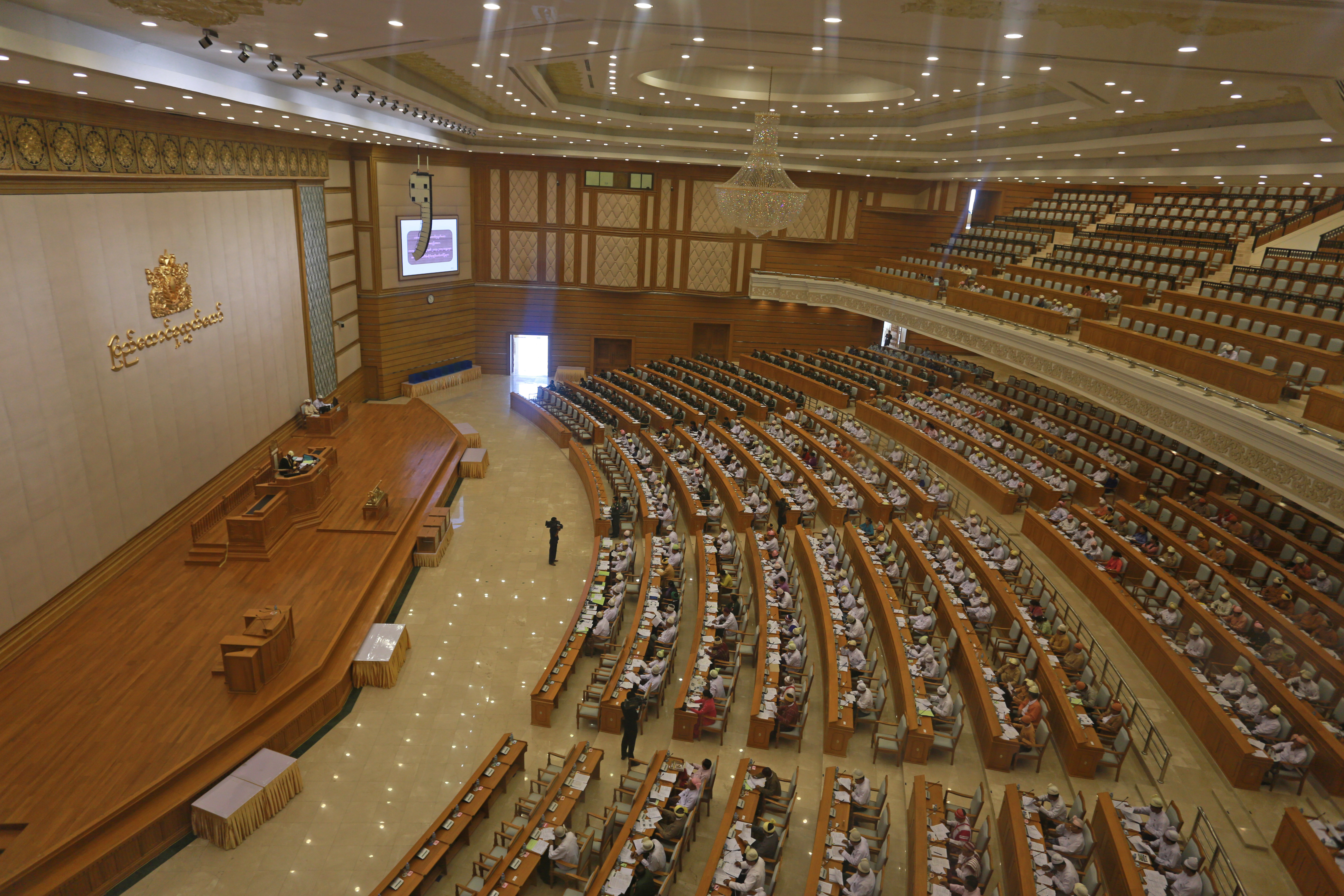 Members of Myanmar Parliament attend the Lower House session in capital Naypyidaw, Myanmar on 1 March 2013.